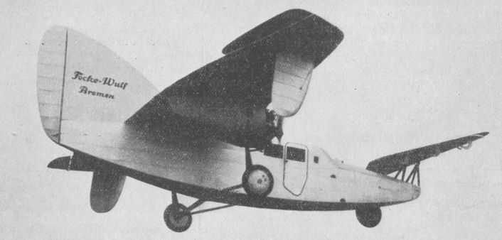 Focke Wulf F 19 photo from L'Aérophile February 1931